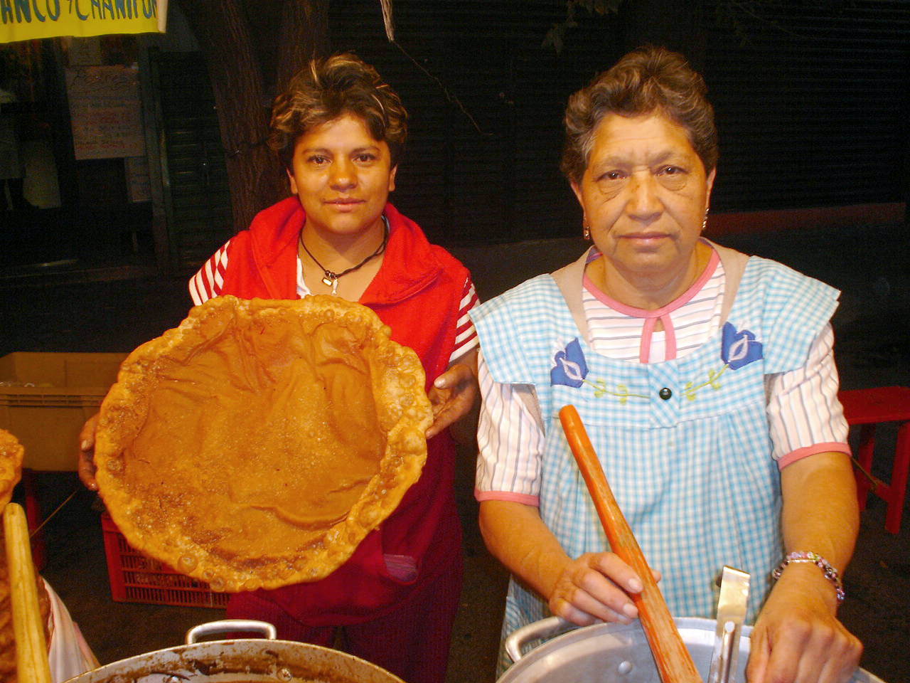 SE DEMUESTRA EL TAMAÑO DEL BUÑUELO Y LA GENTE QUE LO PREPARA.